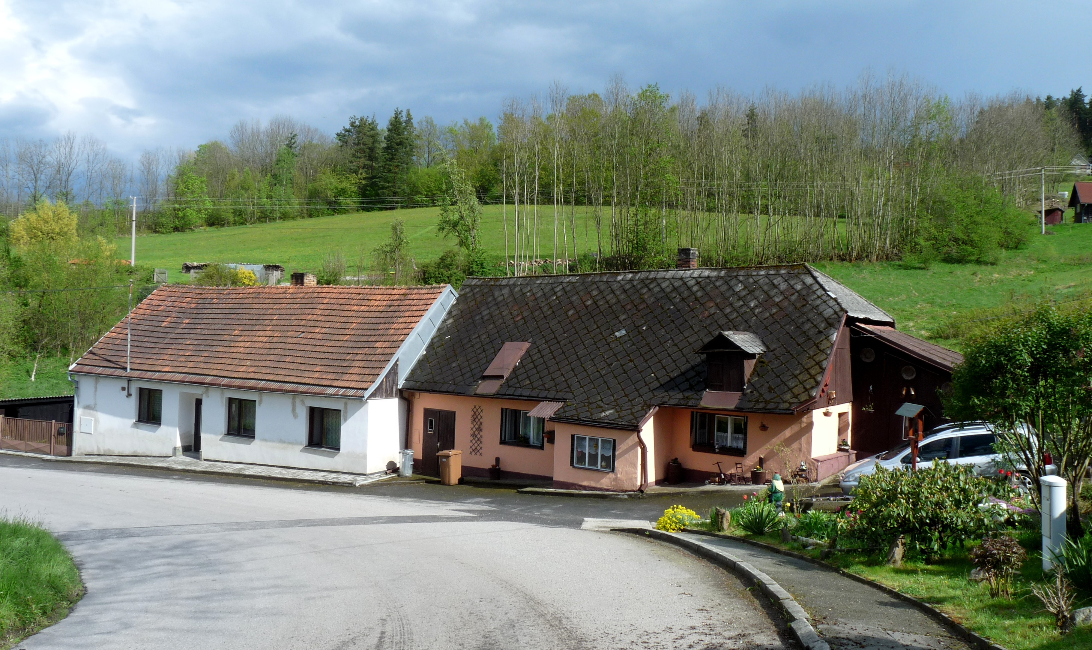 Houses No 5 and 6 in the village of Podolí, Prachatice District, South Bohemian Region, Czech Republic.